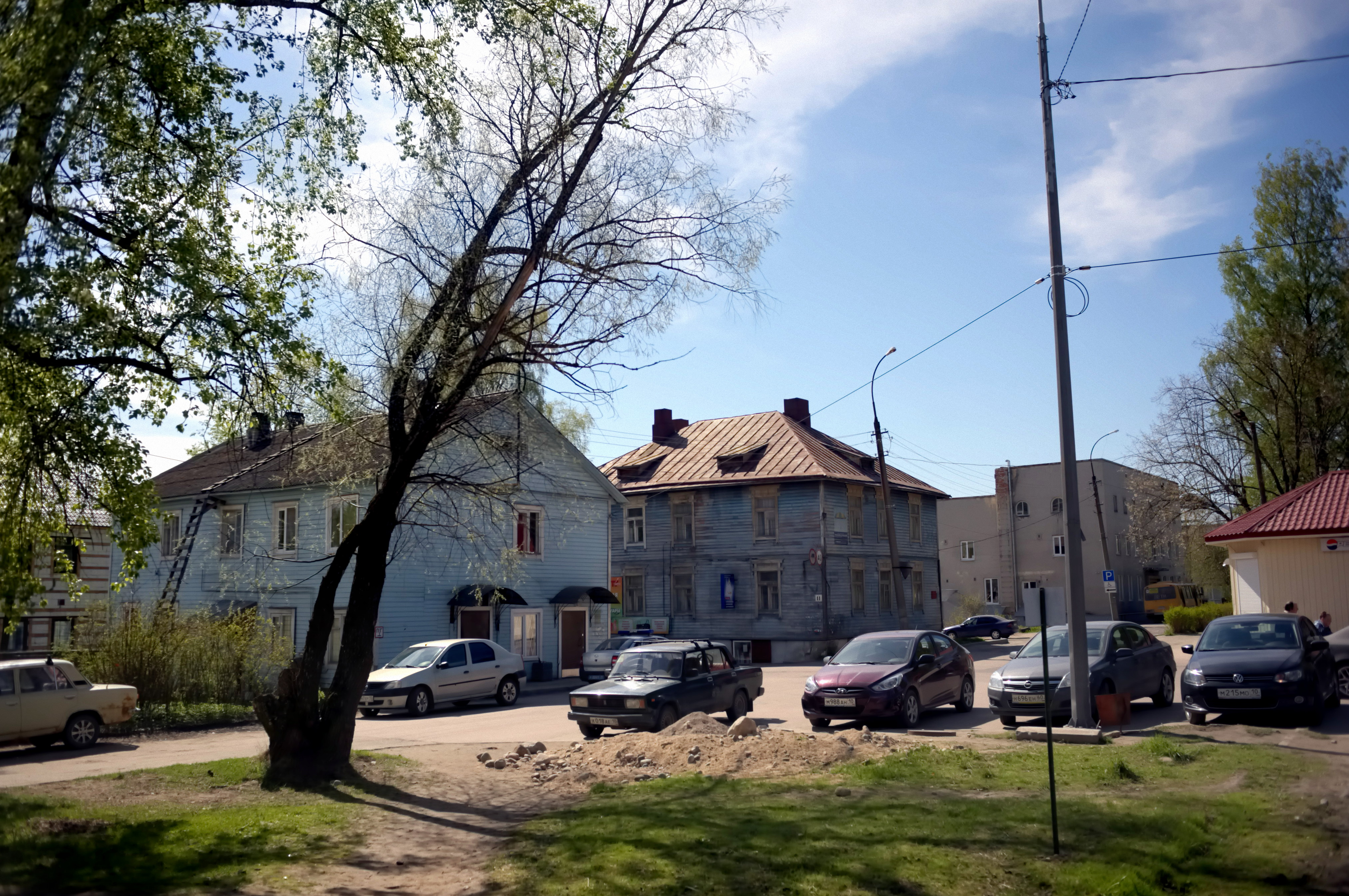 Lakhdenpokhya / Lahdenpohja May 14th 2016